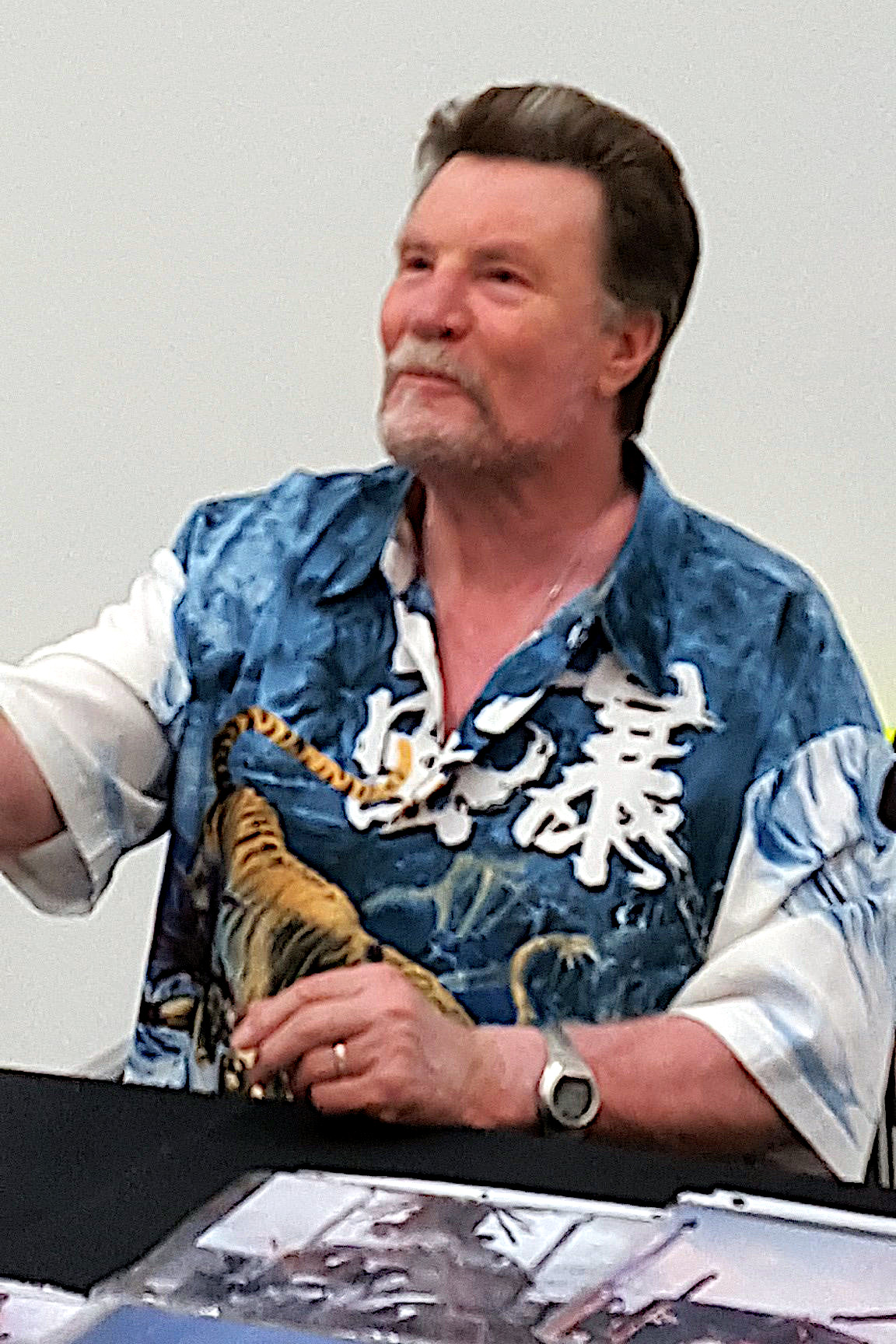 Vernon Wells, Australian actor at a science fiction convention in Stockholm International Fairs in 2015